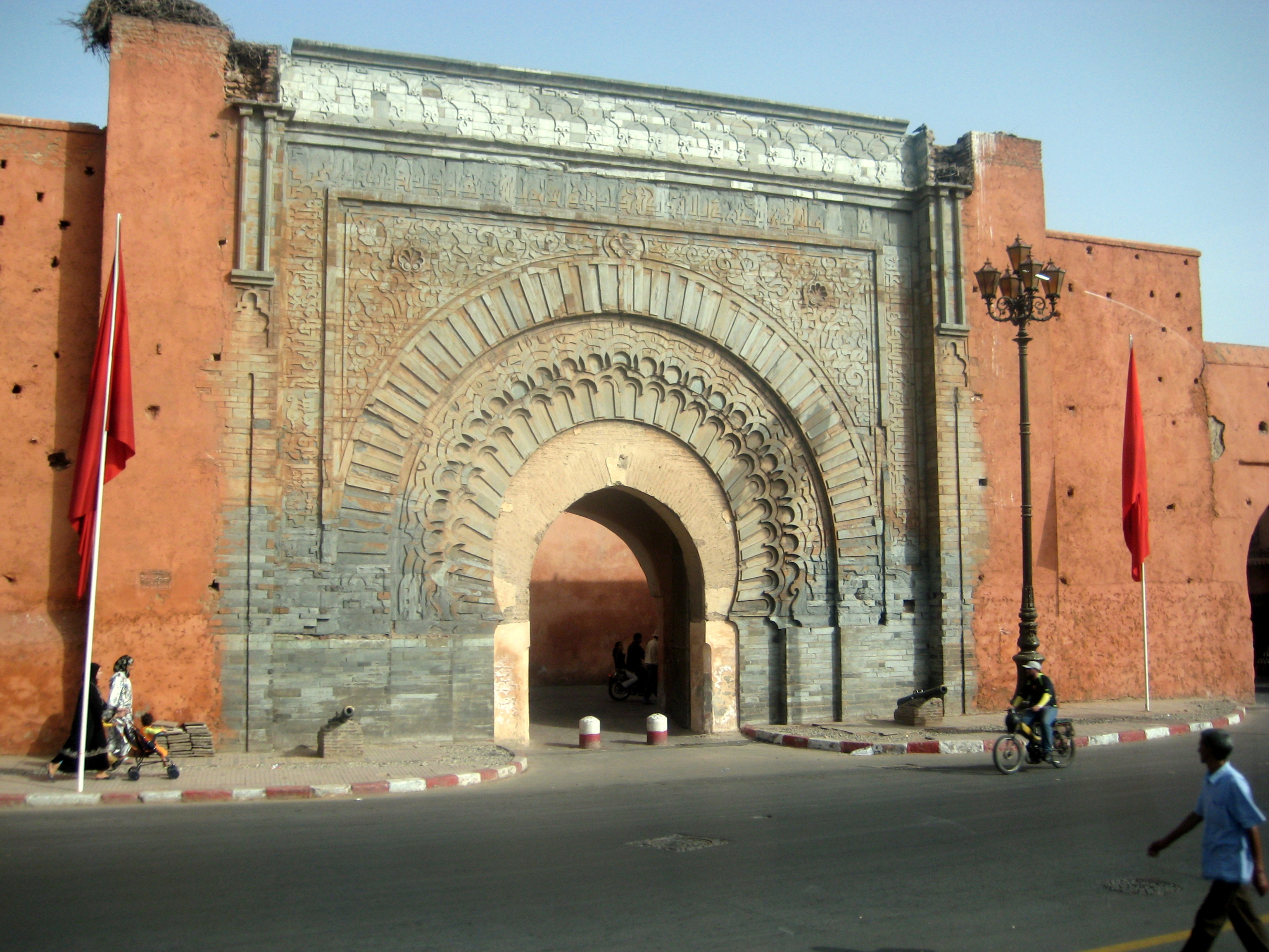 Bab Agnaou Door, the entrance to the kasba